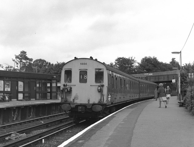 Virginia Water station, Surrey